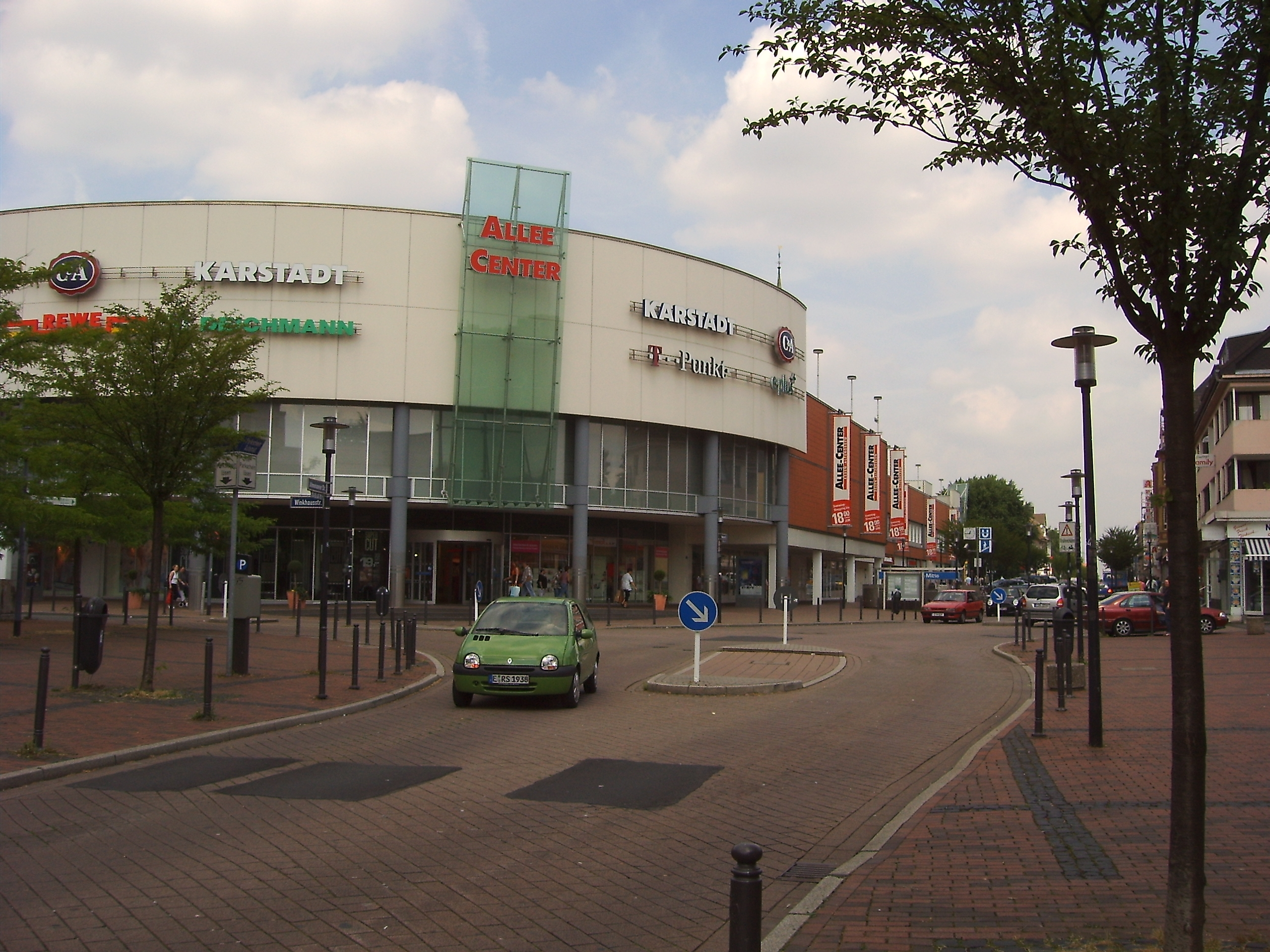 The shopping mall "Allee-Center" in Altenessen, Germany